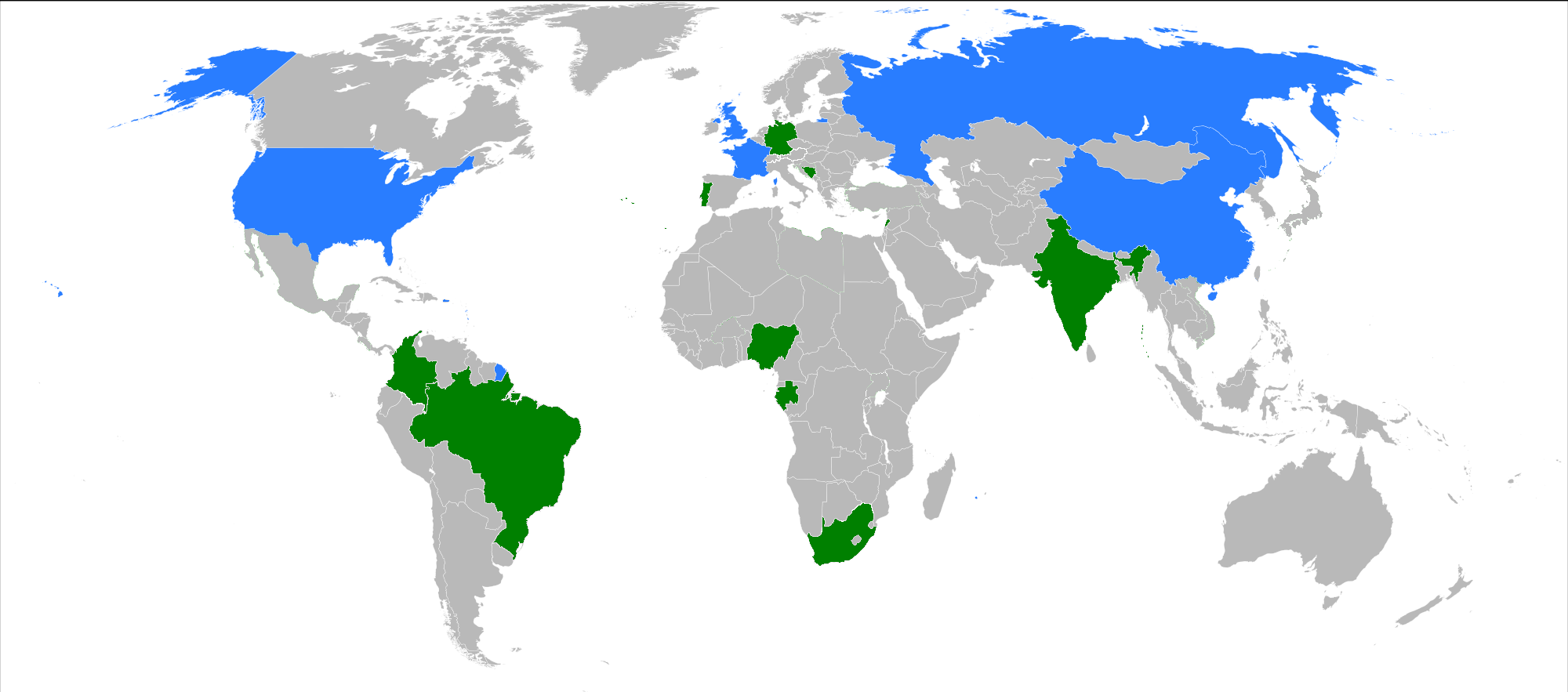 Map of the world showing the United Nations Security Council in 2011. Permanent member 2011 members